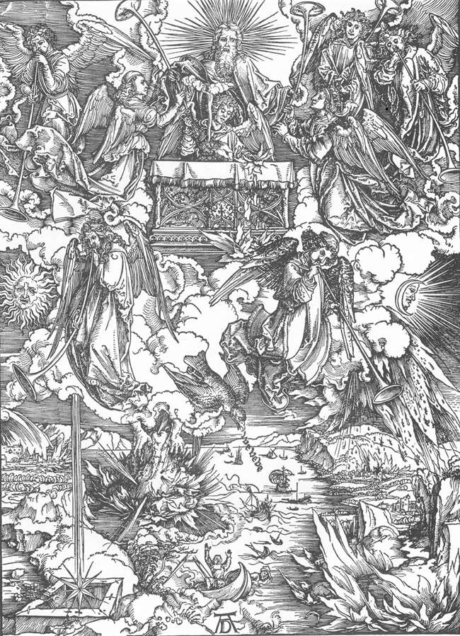 The Revelation of St John: The Seven Trumpets Are Given to the Angels Woodcut, 39 x 28 cm Staatliche Kunsthalle, Karlsruhe